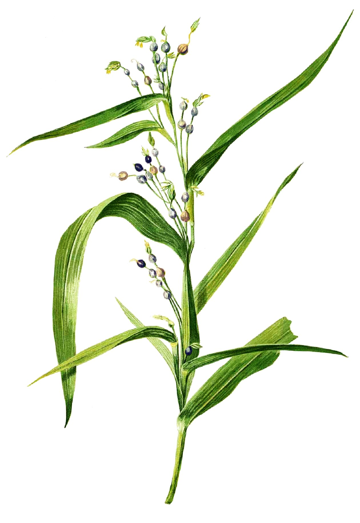 Plate from book